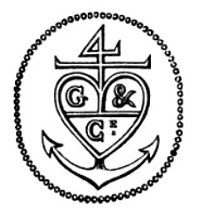 Logo, trademark of the "Grimod et compagnie" floated by Grimod de la Reynière